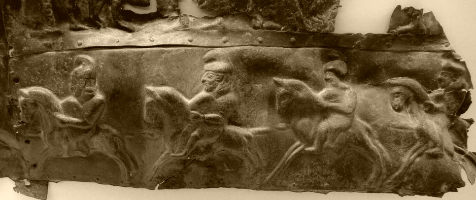 Assyrian bronzes ( VII century B.C) re-used in a greek sculpture. Archaeological museum of Olympia